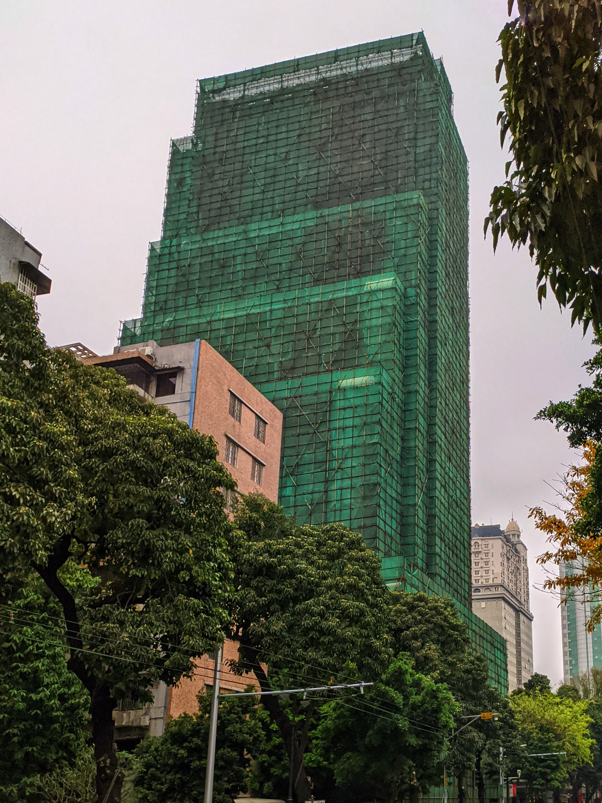 Jianye (Kin Yip) Building, Guangzhou (Canton)